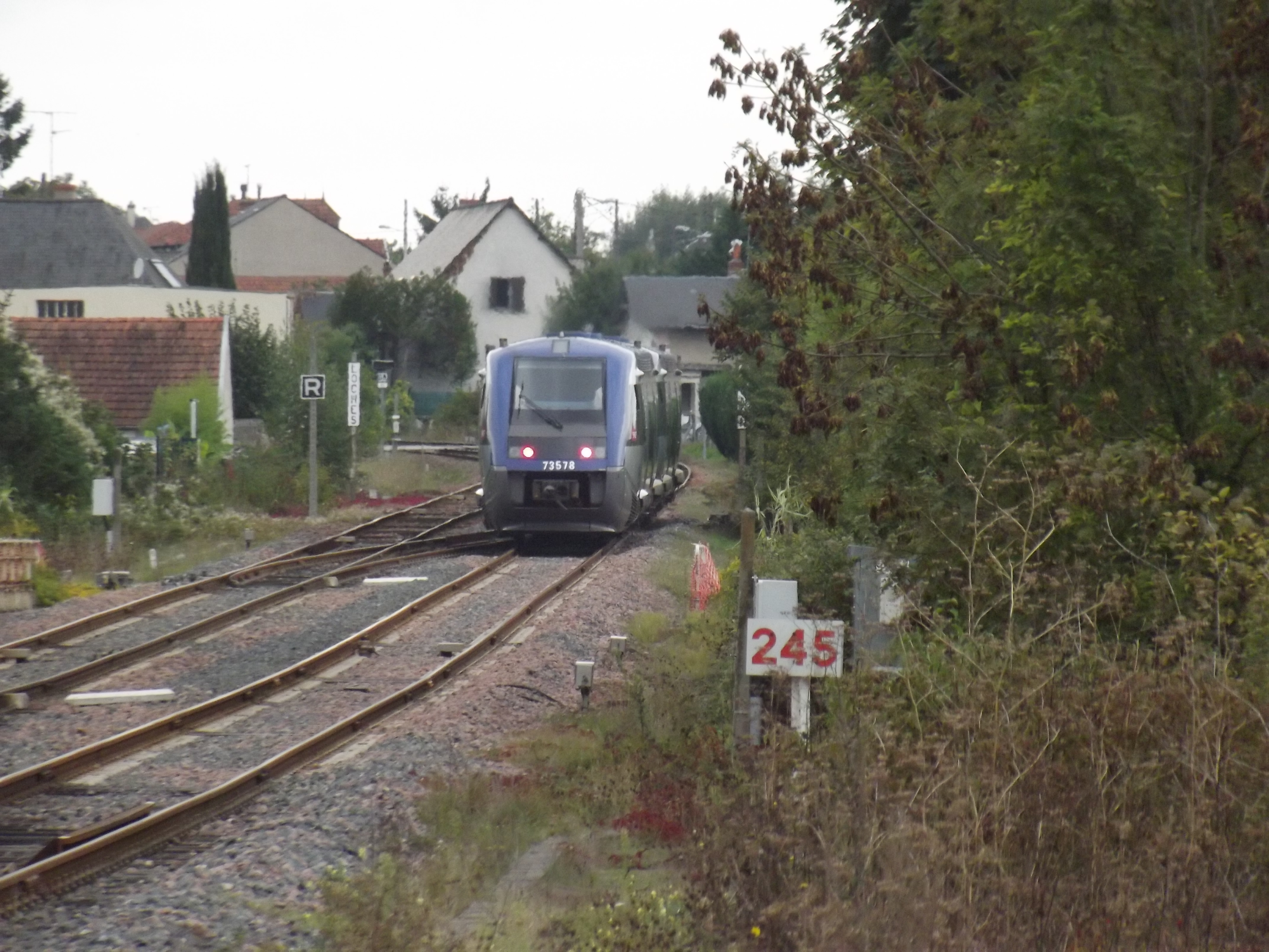 Train leaving for Chinon. The other track is for Loches